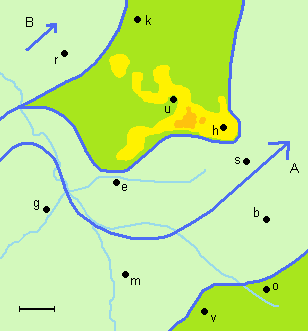 "Eiland van Ubachsberg", plateau in Limburg, the Netherlands